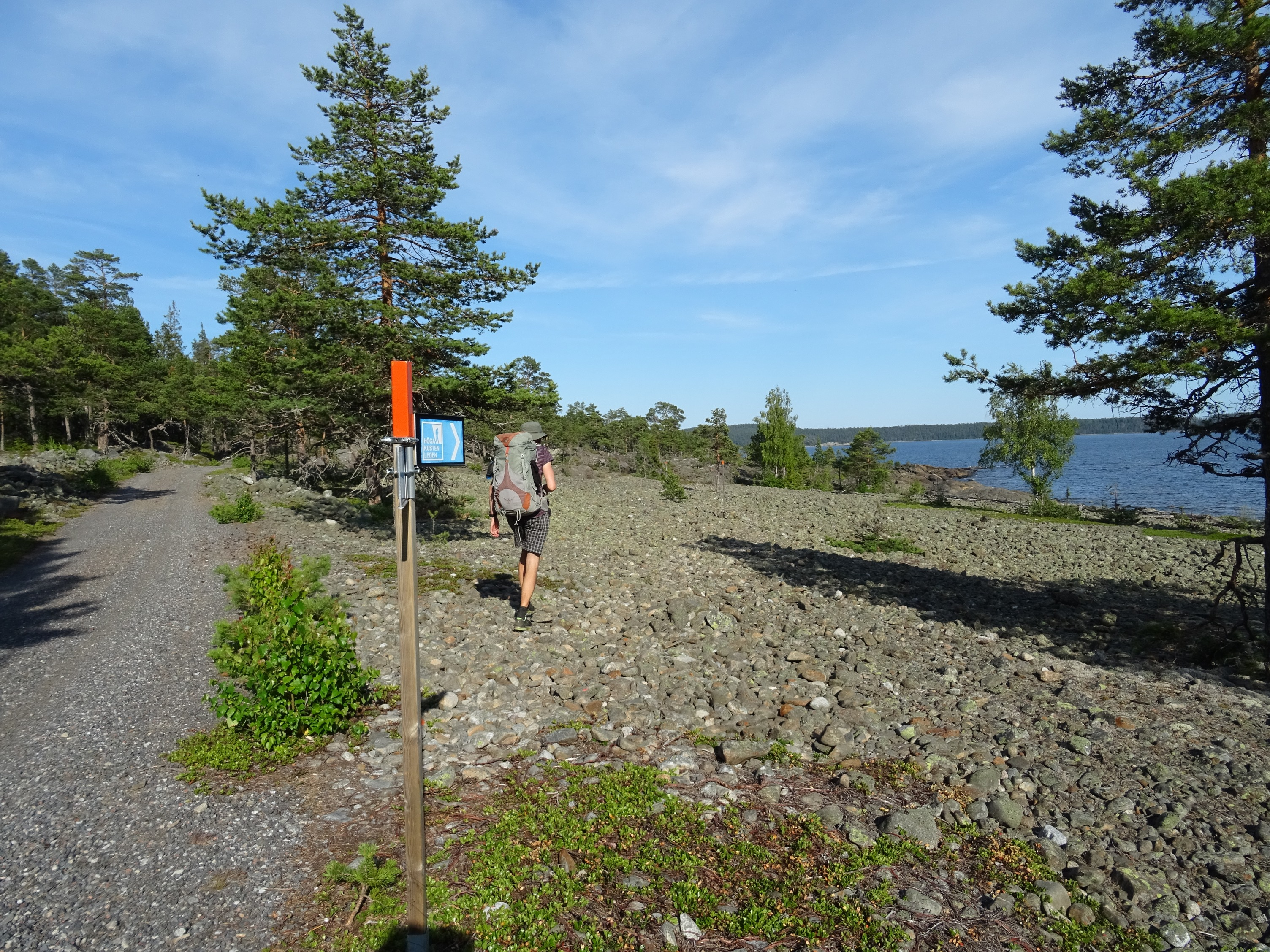 orange route marking of Höga kustenleden. Grönsviksfjärden